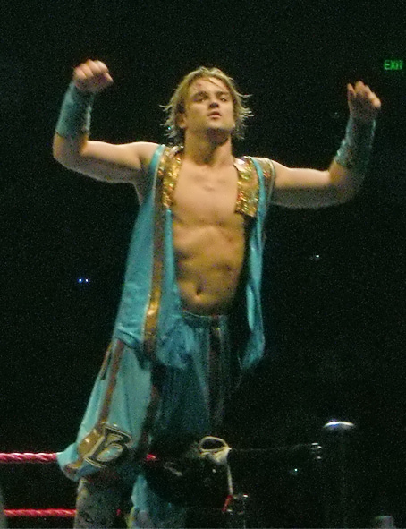 Brian Kendrick @ Sydney, Australia 'RAW' house show on the 9th of November '07